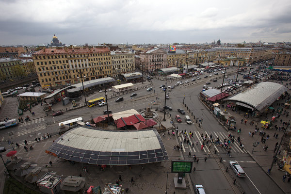 Sennaya Square. Saint Petersburg, Russia. Photo by Anton Vaganov.